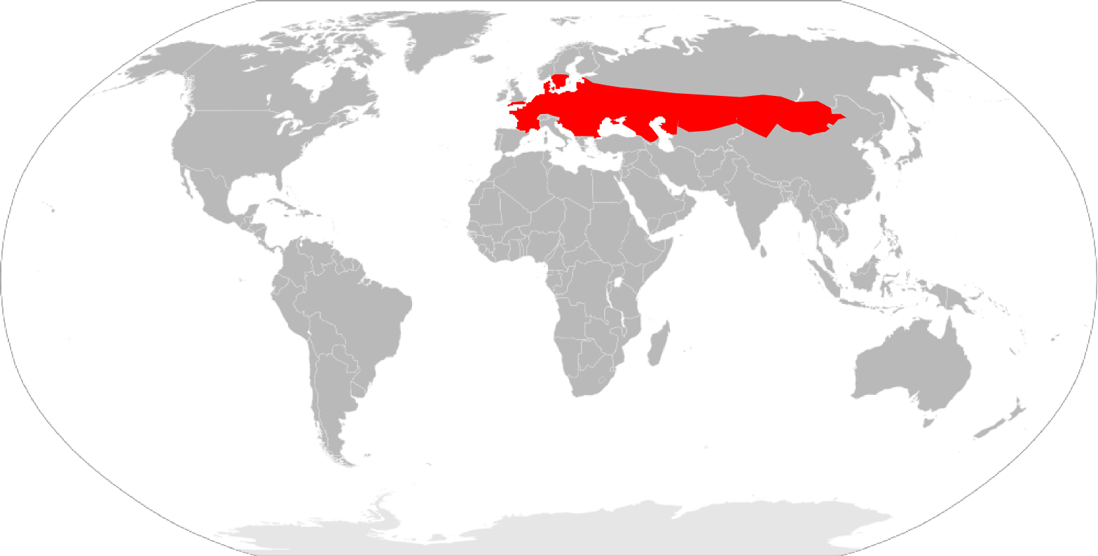 Lacerata agilis range map.